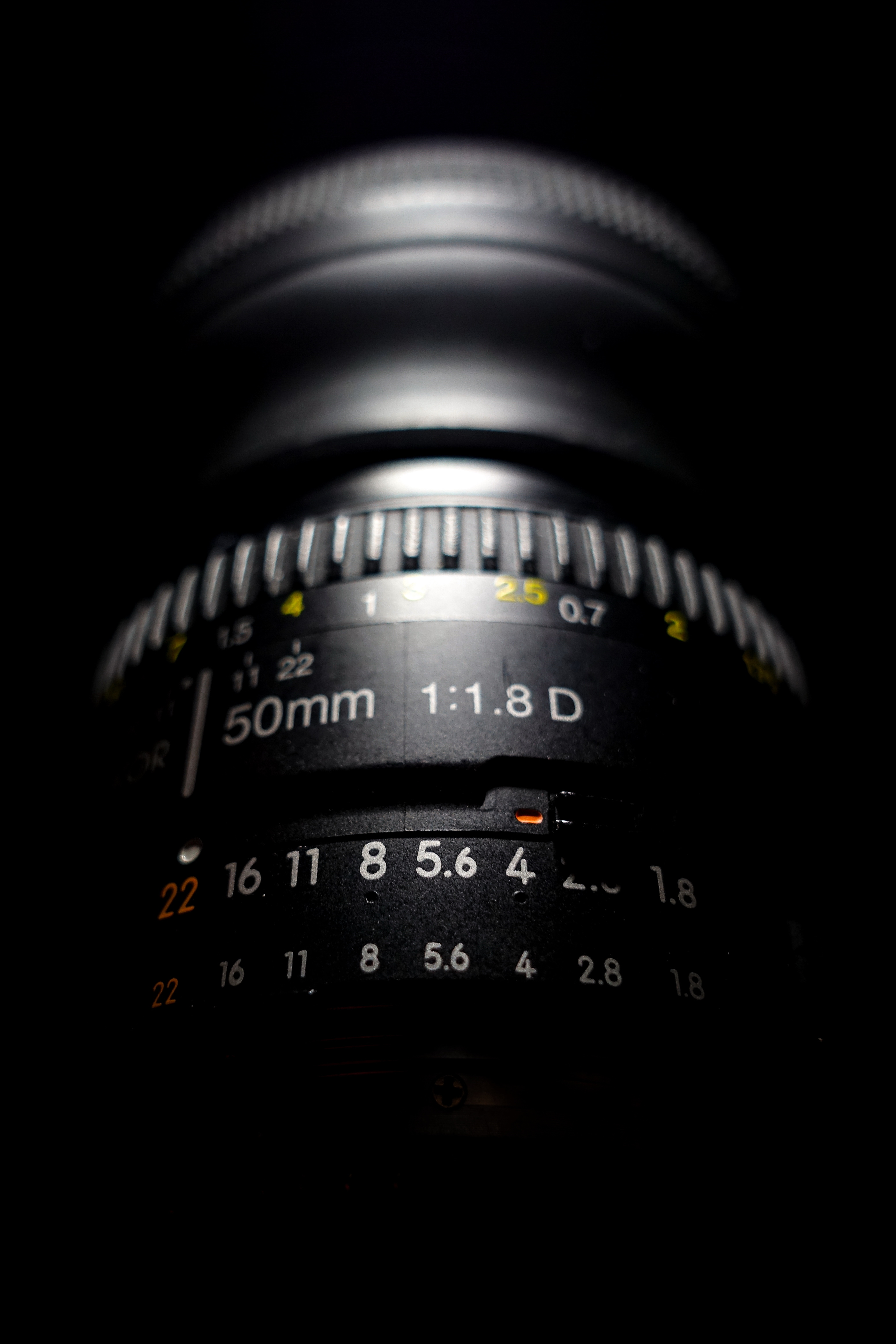 Aperture markings on a Nikon Nikkor 50mm f1.8D